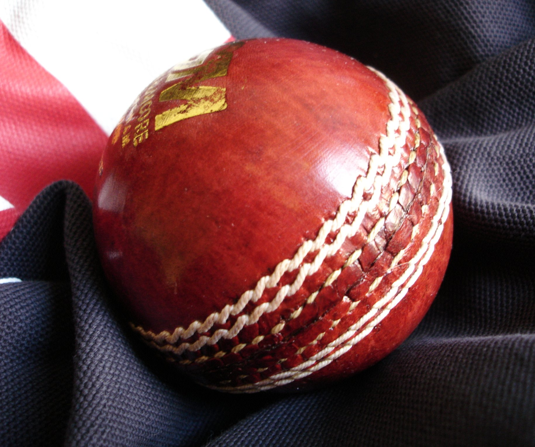 Gunn & Moore red cricket ball on a polo shirt with the England flag.